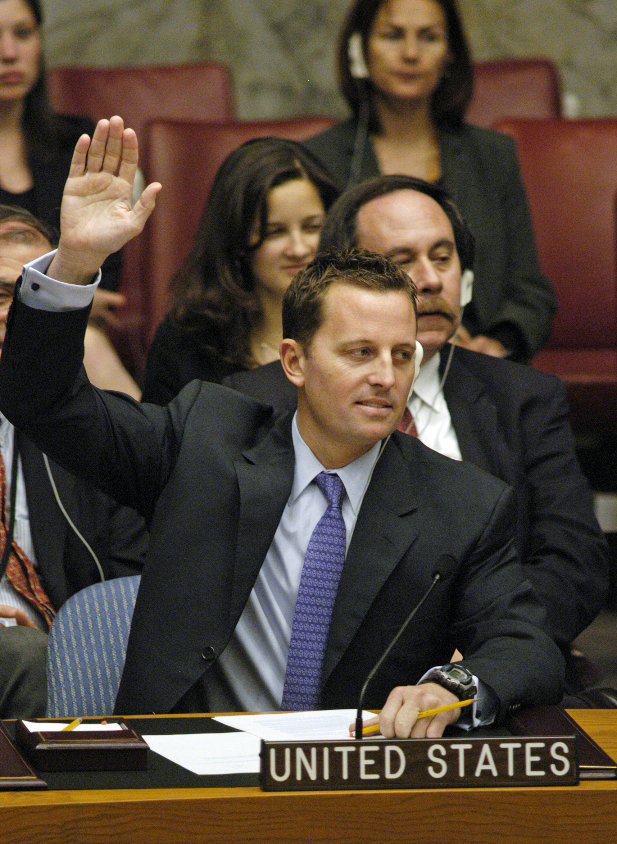 U.S. spokesman to the UN Richard Grenell voting at a UN Security Council meeting.